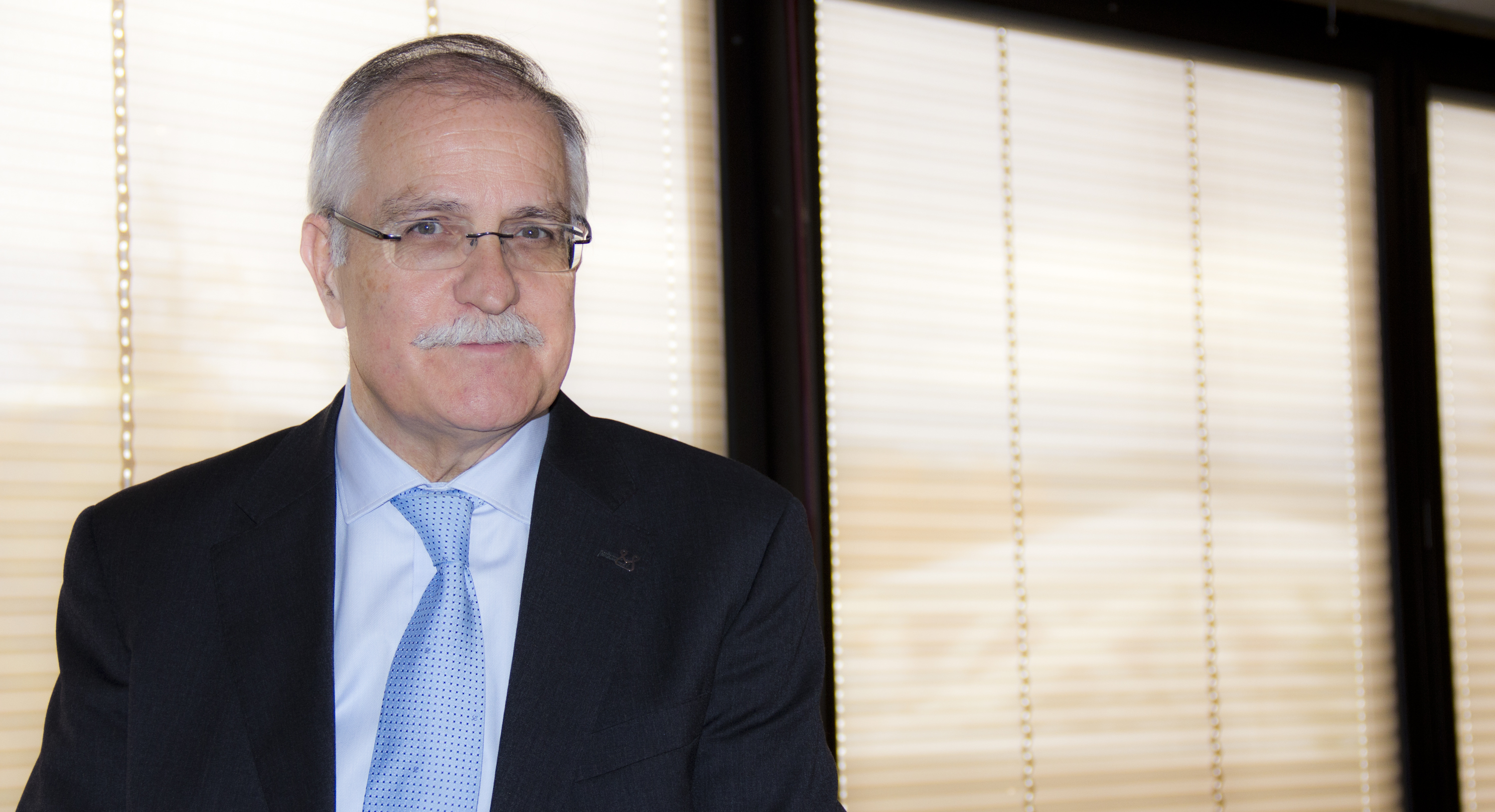 Javier Sotil, Chairman of MONDRAGON Corporation